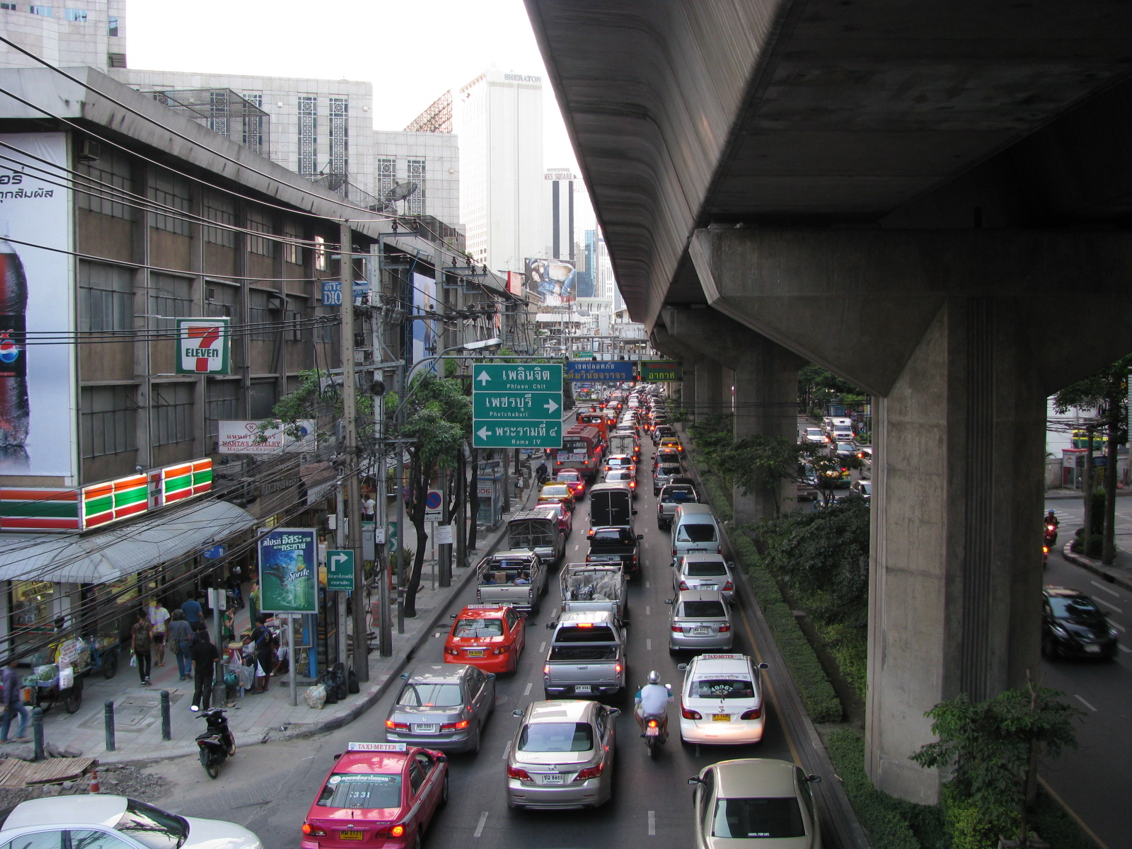 The Sukhumvit Road, junction with Soi 18 This place is located in Watthana, Bangkok, Thailand.